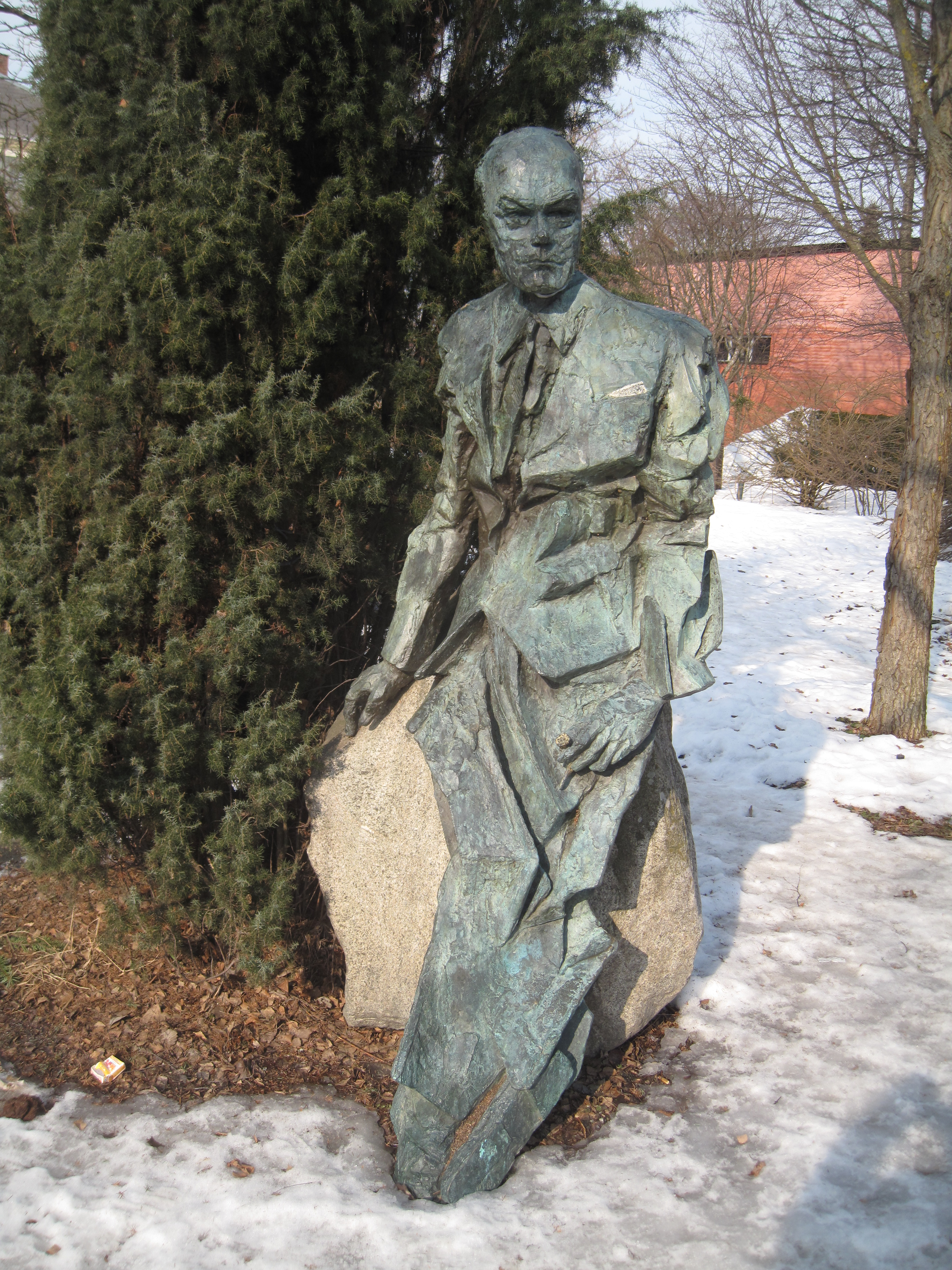 Jan Fridegård, sculpture in Enköping by swedish artist Rune Rydelius, (1946-). Jan Fridegård (1897-1968) was a swedish author.